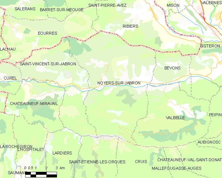 Map commune FR insee code 04139.png Légende